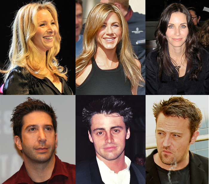 Montage of the main actors in the TV series "Friends", created from portraits available on Commons.